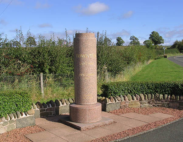 Newstead Millennium Milestone — in Newstead, Scottish Borders. A pink granite column at the east end of the village erected in 2000 to celebrate the new millennium, and designed in the form of a Roman milestone due to the proximity of the Roman fort at Trimontium. The inscription on the Newstead milestone reads: TRIMONTIVM CAPVT VIAE ANNO DOMINI 2000 The grandeur that was Rome Every Roman mile marched by the soldiers consisted of 1000 double paces. CAPVT VIAE - the head of the road - indicates the place from which the distances on milestones were measured. From the 500 miles of Roman roads in Scotland, only one Roman milestone has been found (at Ingleston in Edinburgh), a buff sandstone pillar about 1.5m high and now in the museum of Scotland in Edinburgh. (Source: Trimontium Trust information board near the site).